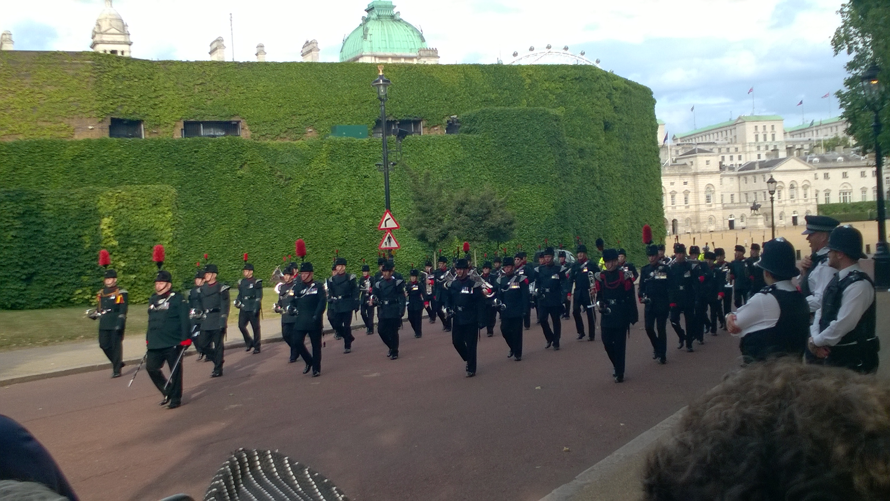 The Waterloo Band of the Rifles on Horse Guards Road in London